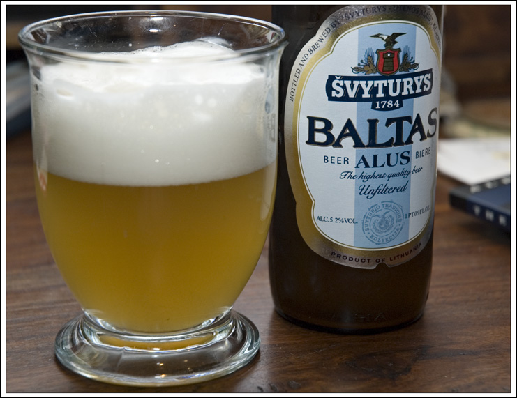 Baltas Wheat beer (5.2% vol.) from Švyturys brewery in Lithuania.